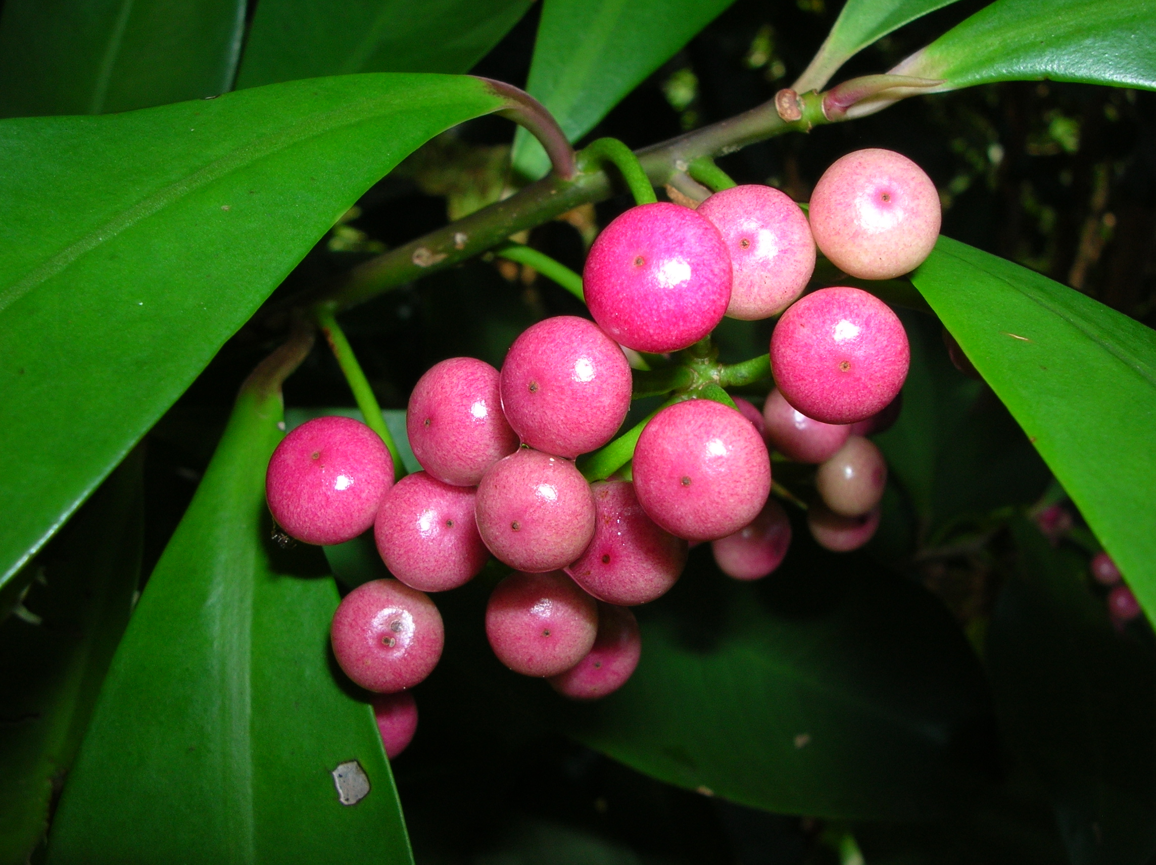 Ardisia elliptica (fruits). Location: Maui, Waikamoi trail